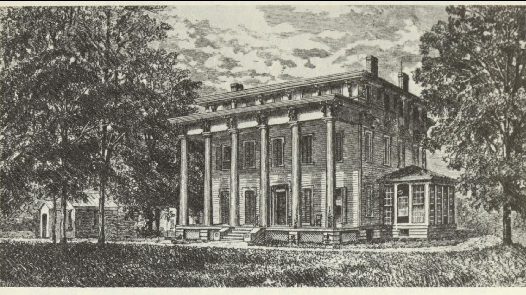 Gerrit Smith's house in Peterboro, New York, from Octavius Brooks Frothingham, Gerrit Smith, 1878. The house was destroyed by fire in 1936. Photo reproduced in Milton Sernett, Abolition's Axe.